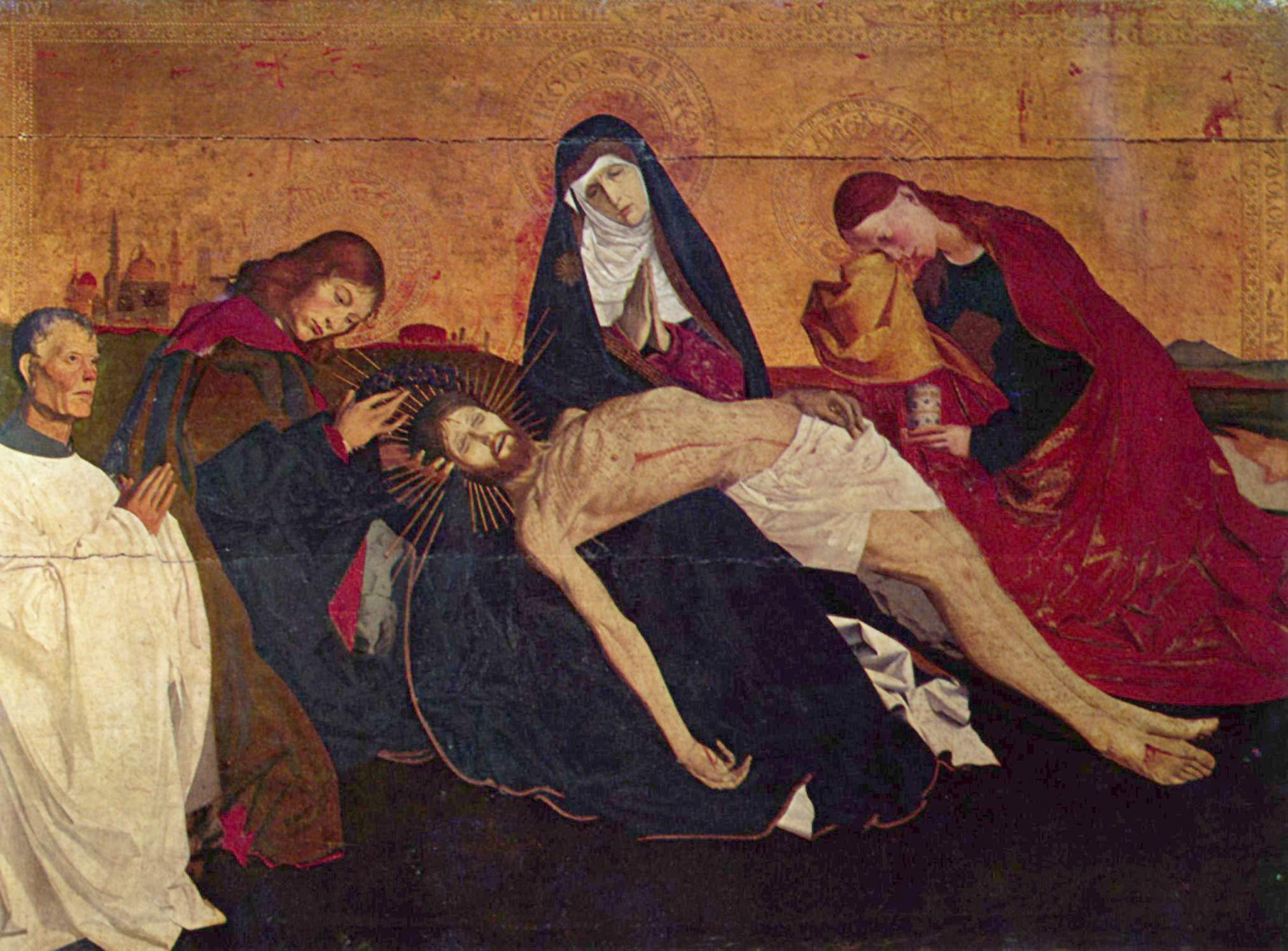 slightly cropped